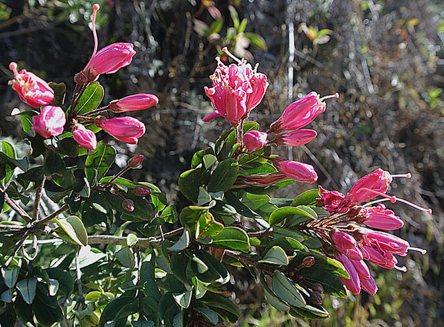 Reported from highlands ranging Mexico to Bolivia, under names such as Payama. Photo from Sta. Marta Range, northeastern Colombia. In context at